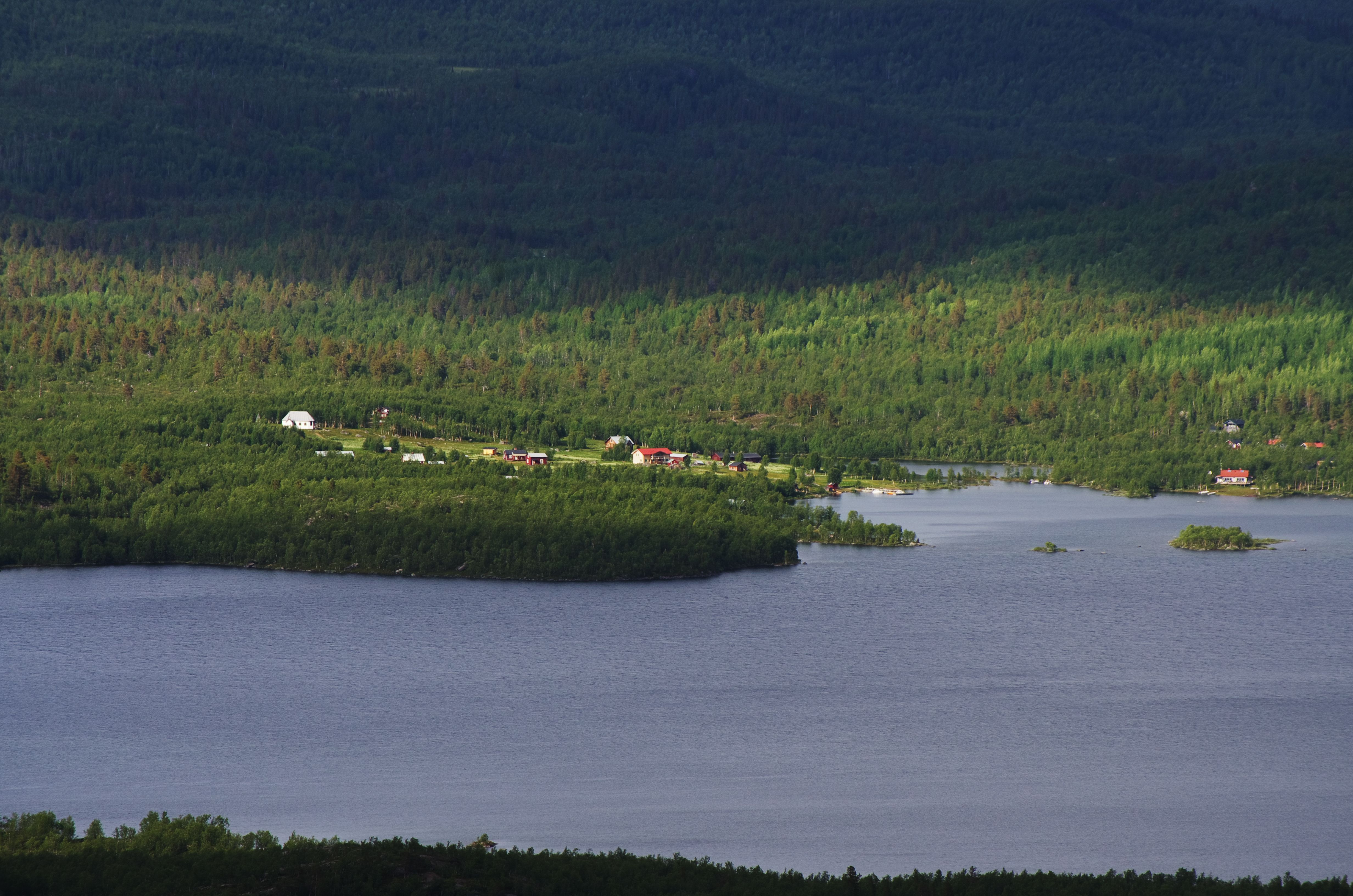 Tjeggelvas (modern spelling Tjieggelvas) is a lake in Arjeplog Municipality, Lappland, Sweden.